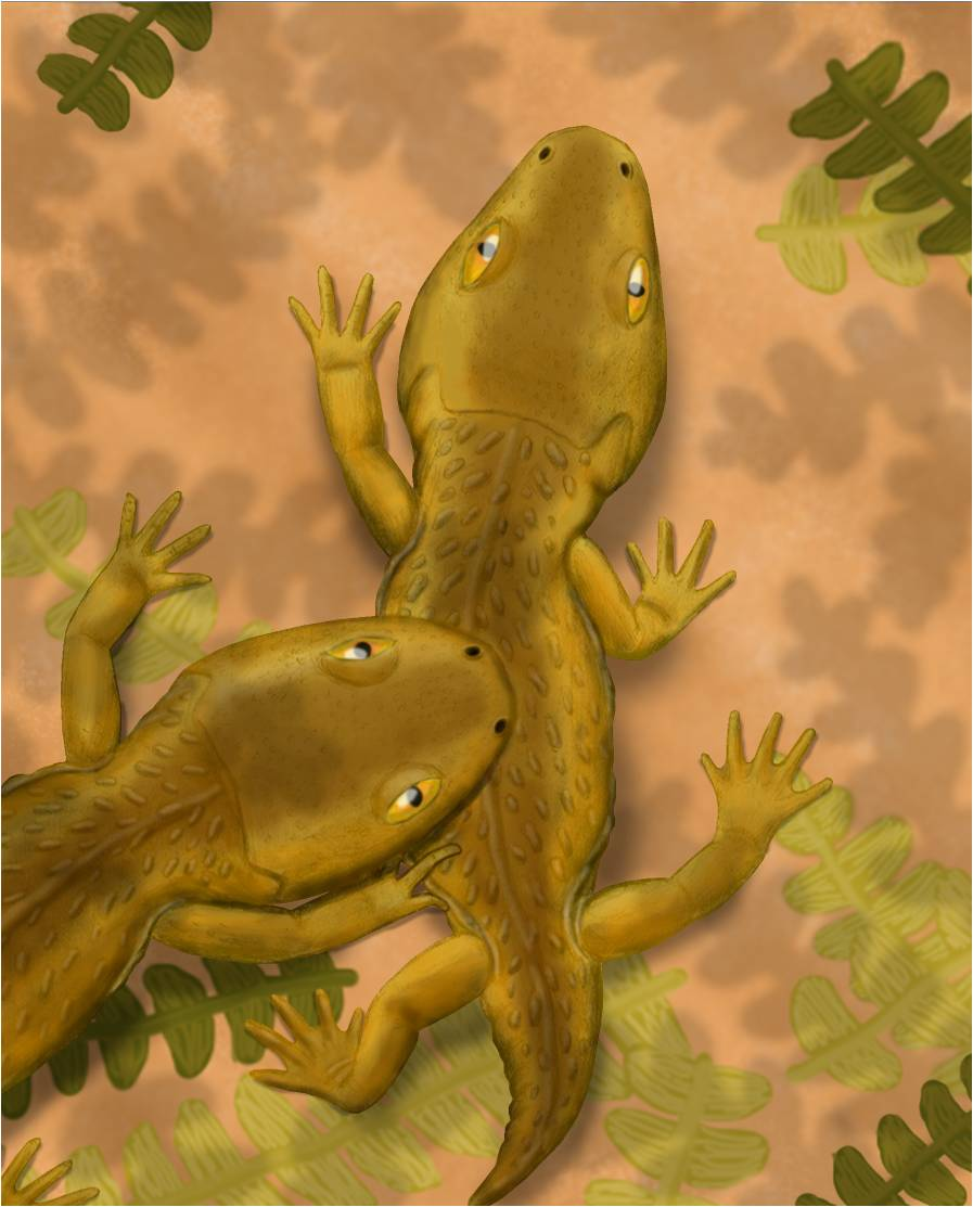 Life restoration of Micropholis stowi.